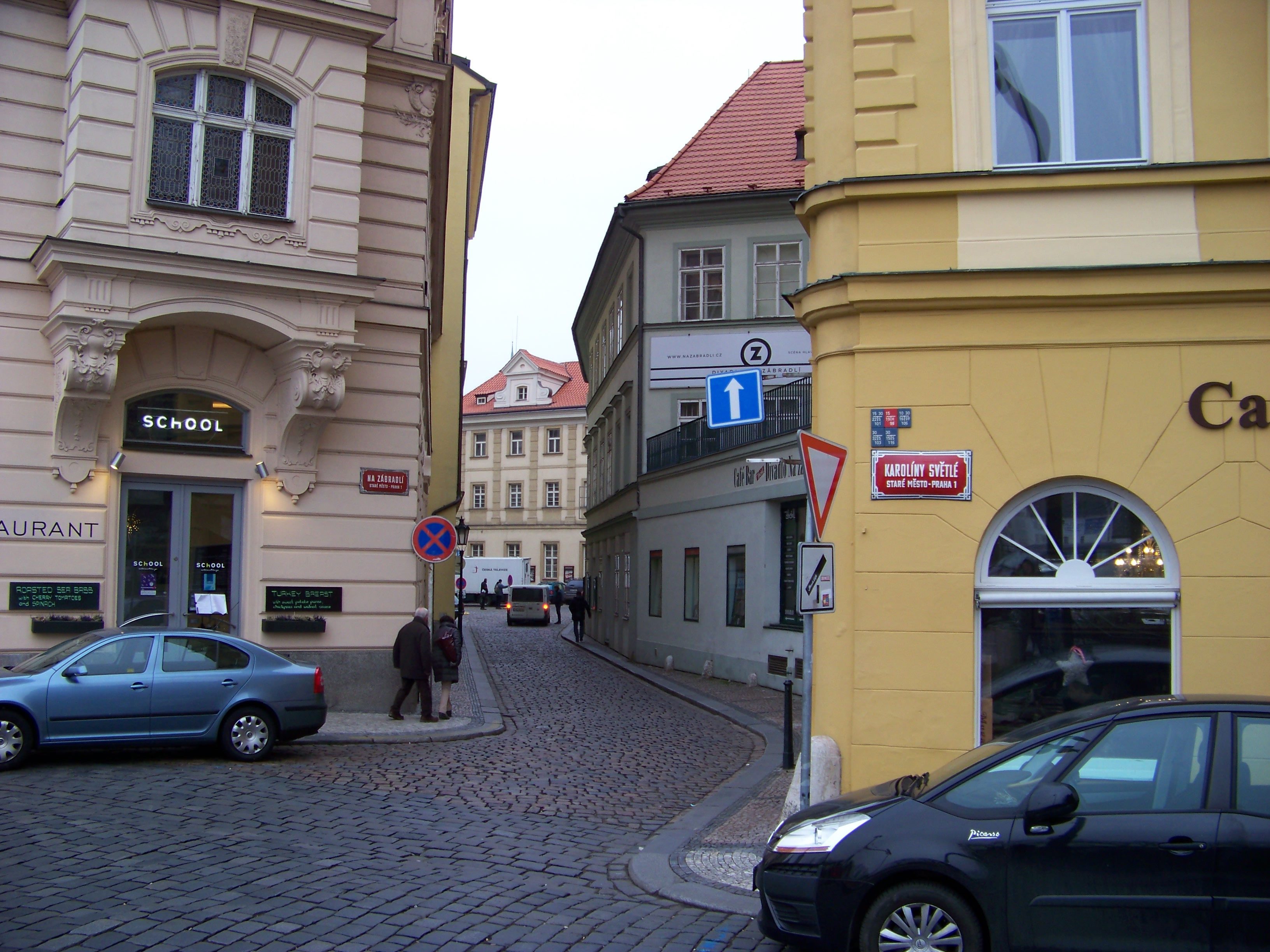 Prague-Old Town, Czech Republic. Na zábradlí street, from Karoliny Světlé street.